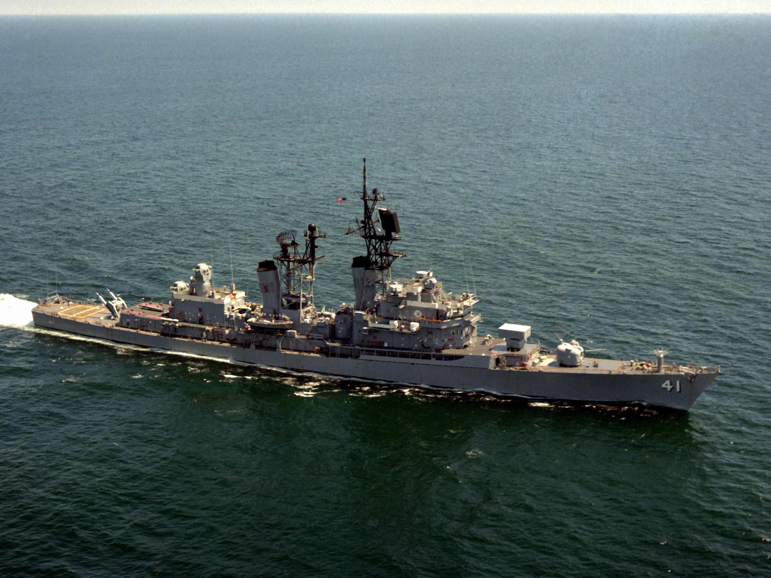 The U.S. Navy guided missile destroyer USS King (DDG-41) underway in 1983.